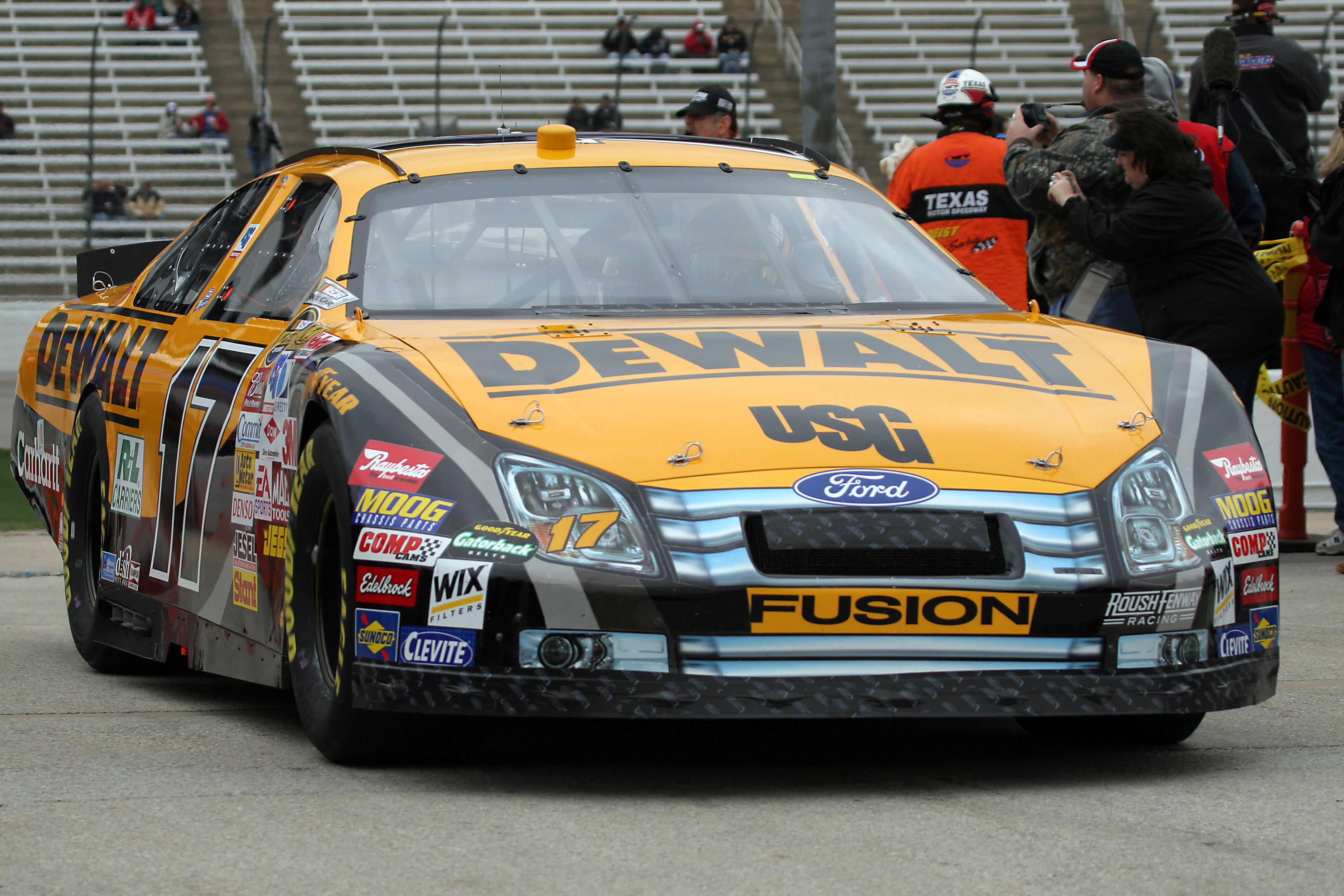 NASCAR driver Matt Kenseth pulls in the pits at Texas Motor Speedway in 2007